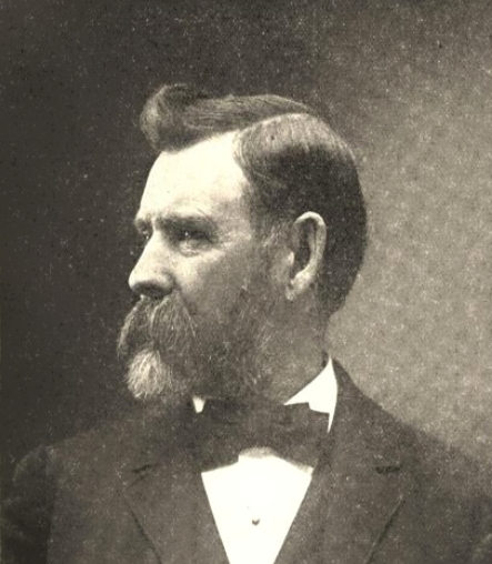 Robert Vaughn, a Welsh American who was one of the most notable pioneers in the history of the state of Montana in the United States, as he appeared in 1900. Vaughn homesteaded the Vaughn Ranch in the Sun River valley; founded the town of Vaughn, Montana; co-founded the city of Great Falls, Montana; and was a prominent businessmen in Great Falls until his death in 1918.